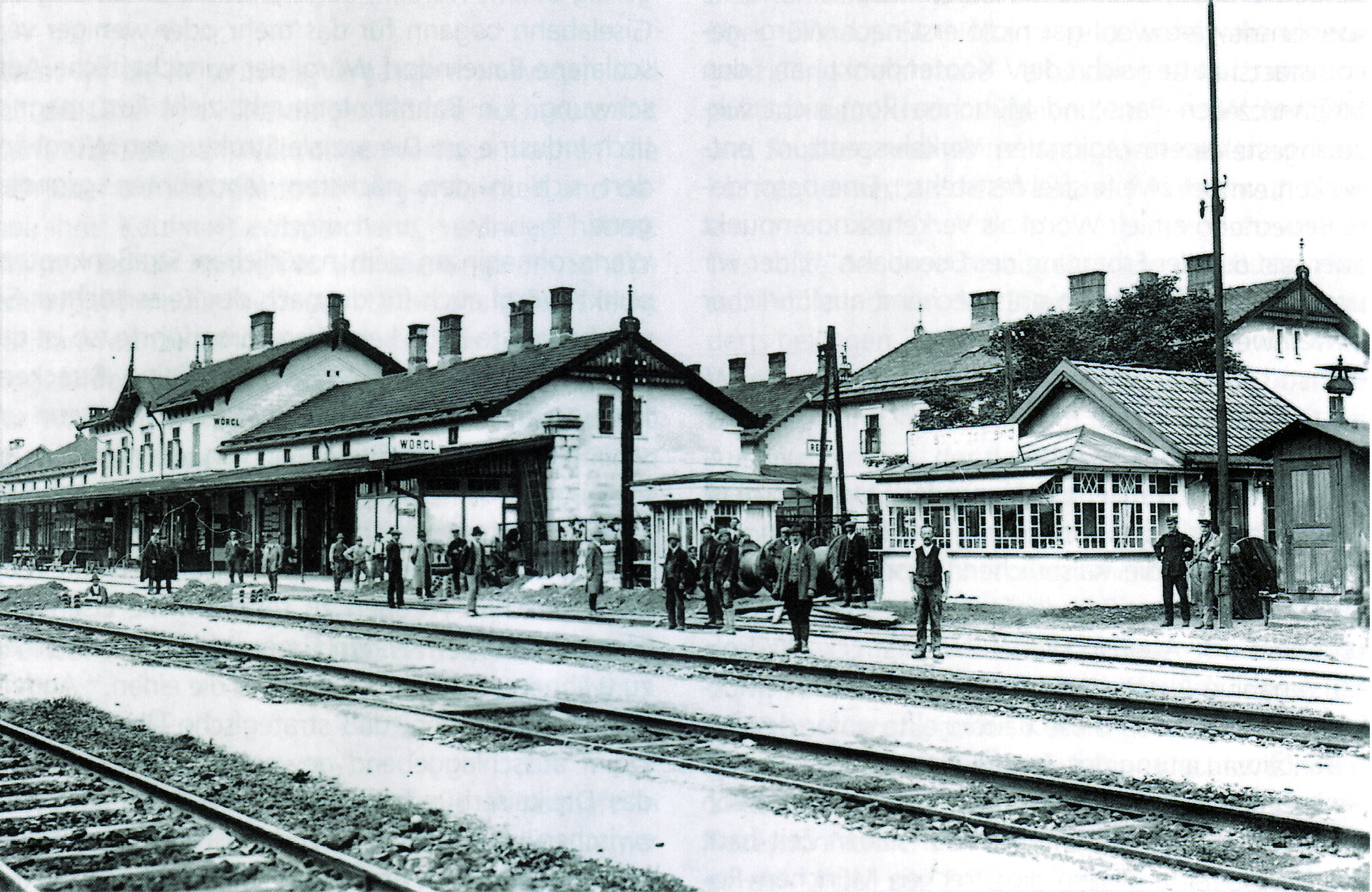 Old train station of Wörgl (Tyrol, Austria) before World War II.